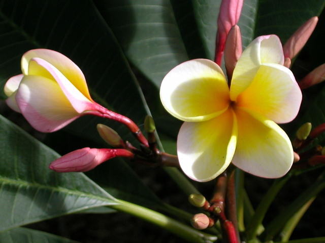 Plumeria alba flowers